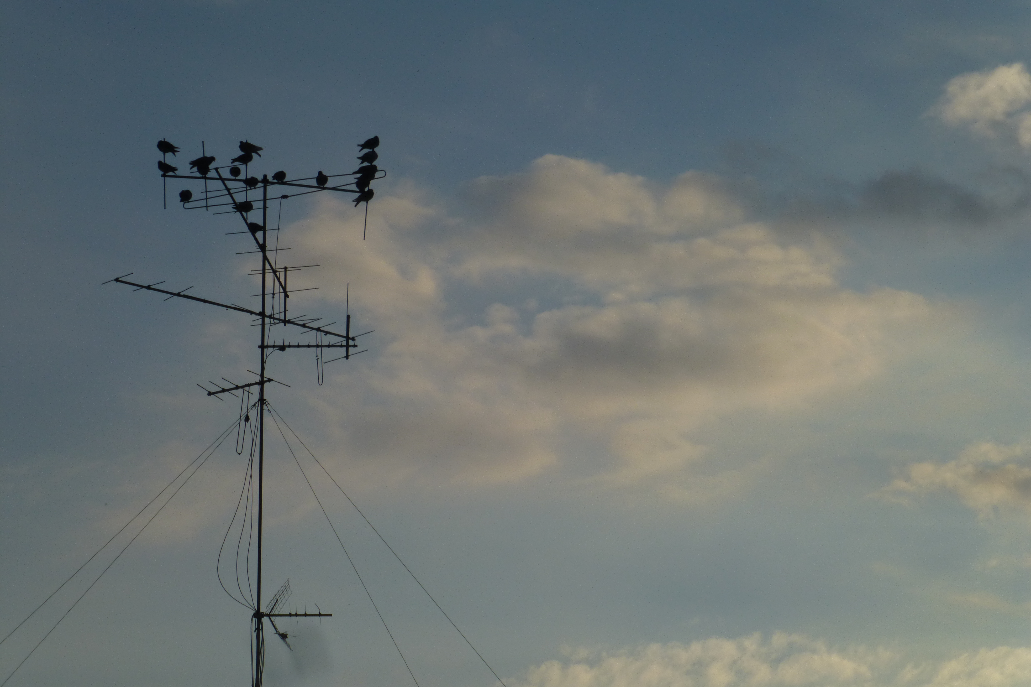 Animals of Israel